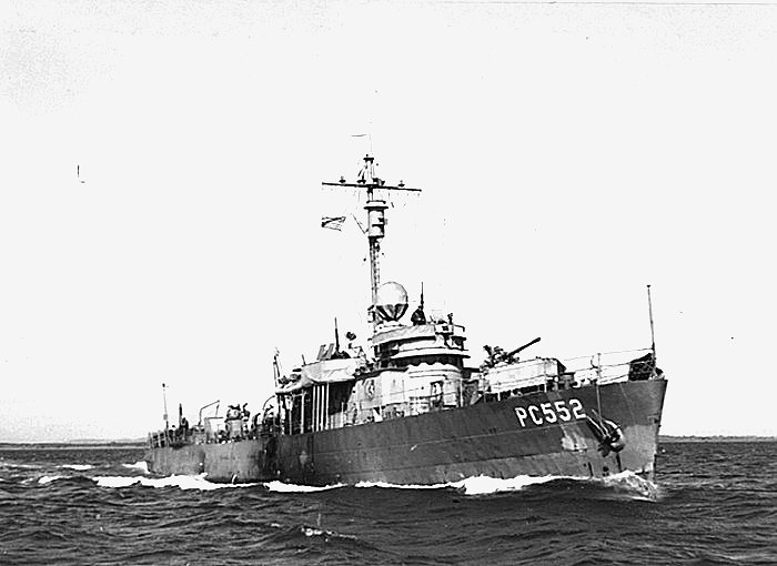 Submarine chaser USS PC-552 c.1944